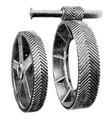 Herringbone gears (Bentley, Sketches of Engine and Machine Details).jpg